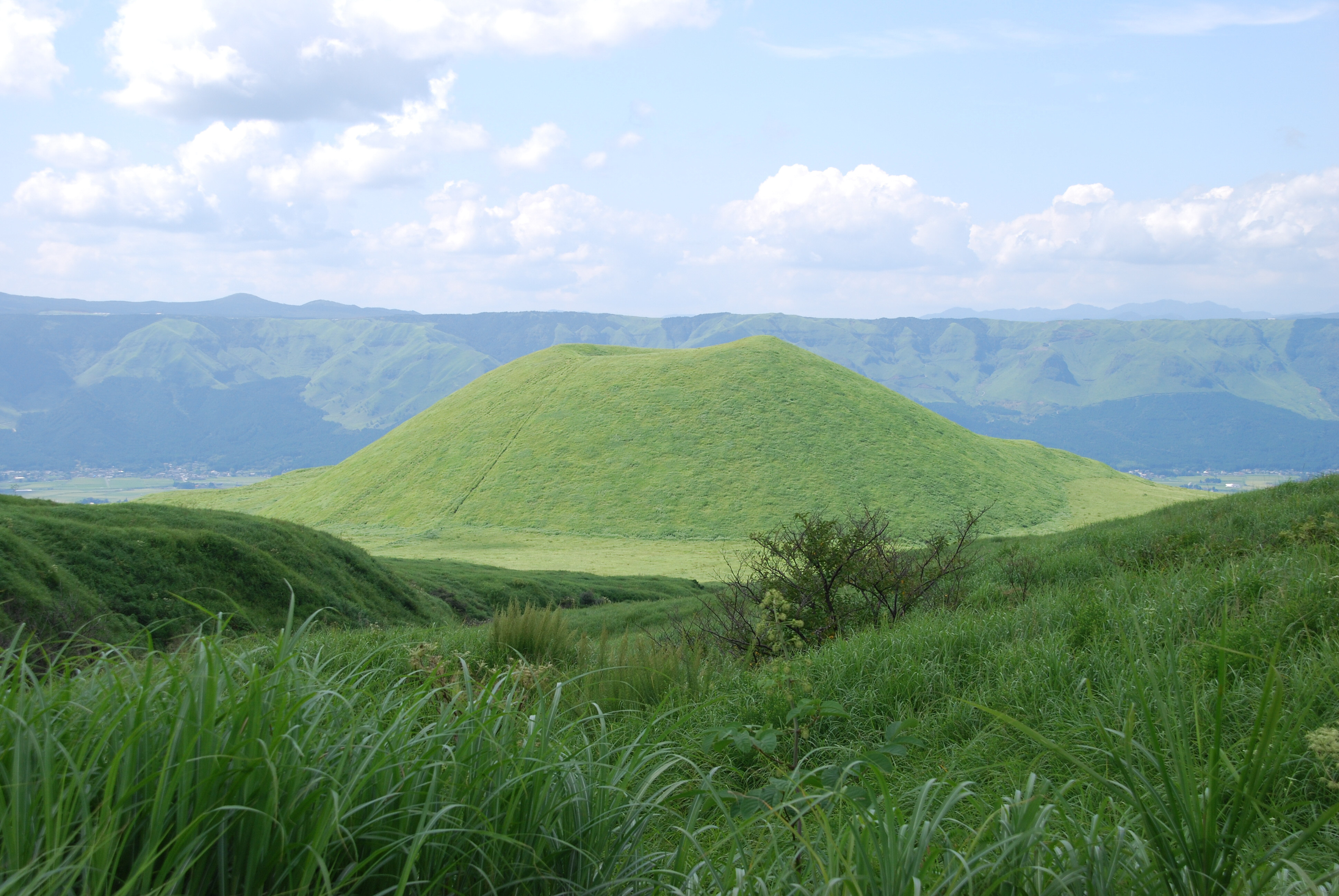 Komezuka, a small volcano in the Aso Caldera